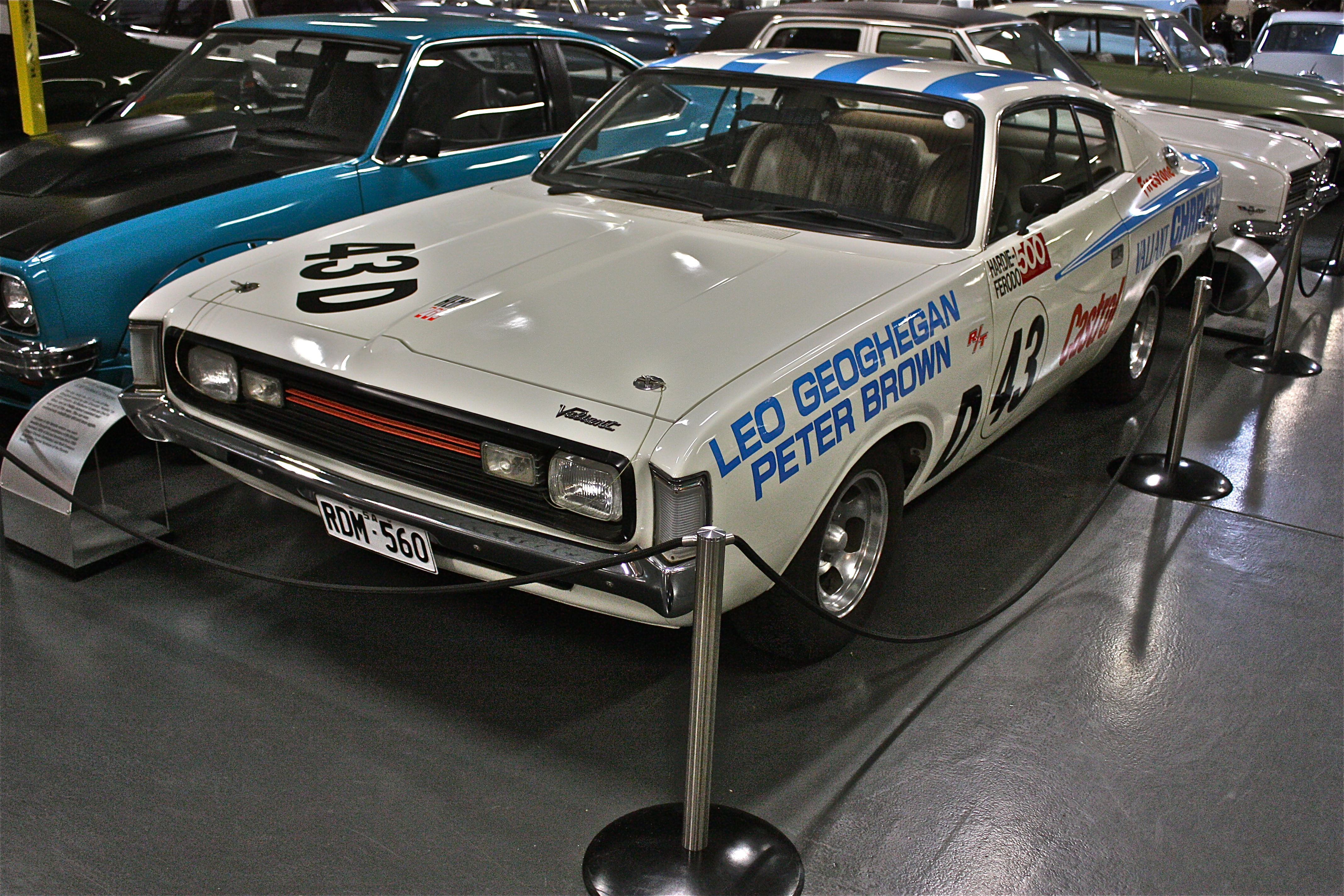 Leo Geoghegan's Chrysler Valiant Charger at the National Motor Museum, Birdwood